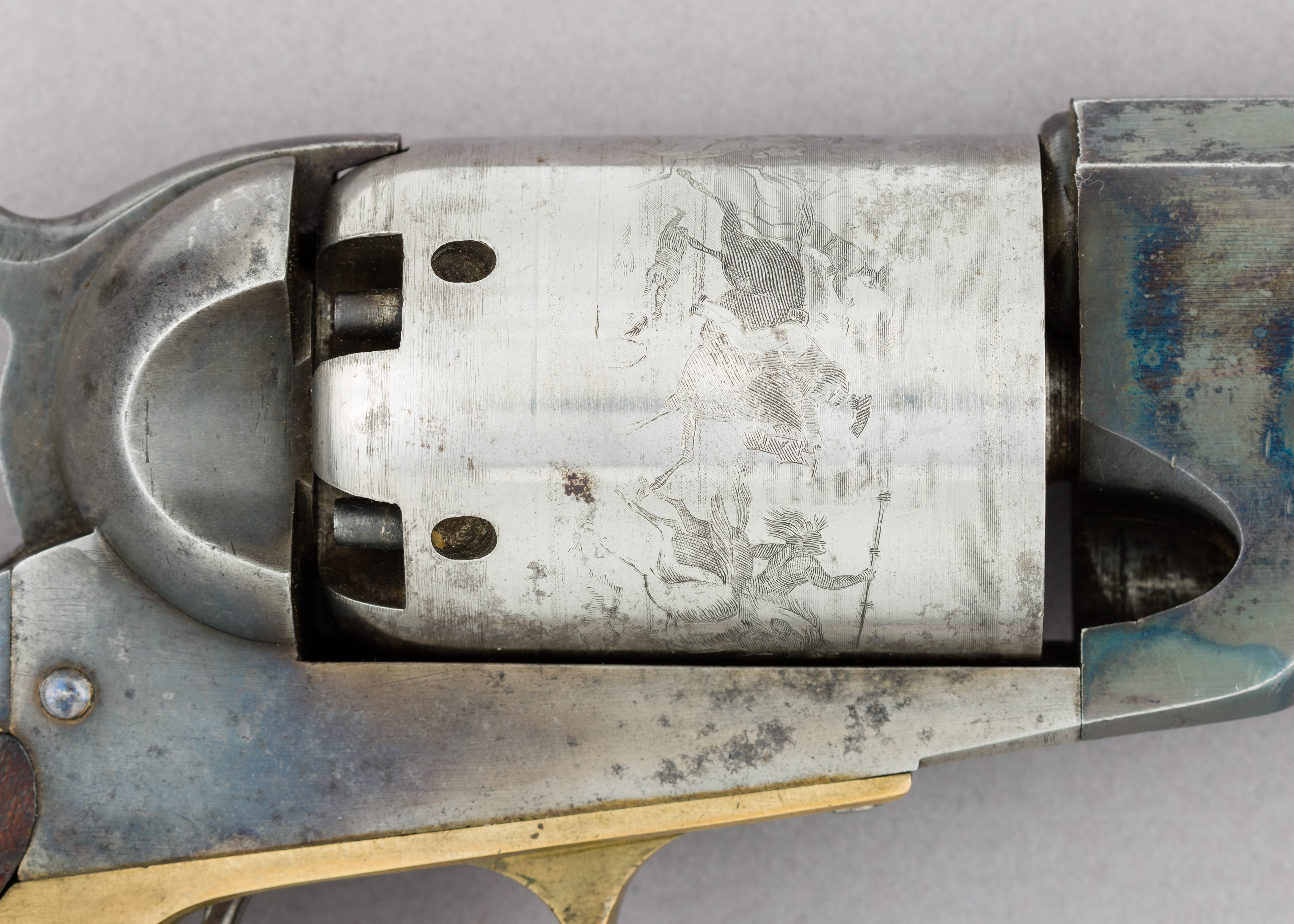 American, Whitneyville, Connecticut; Percussion revolver; Firearms-Pistols-Revolvers